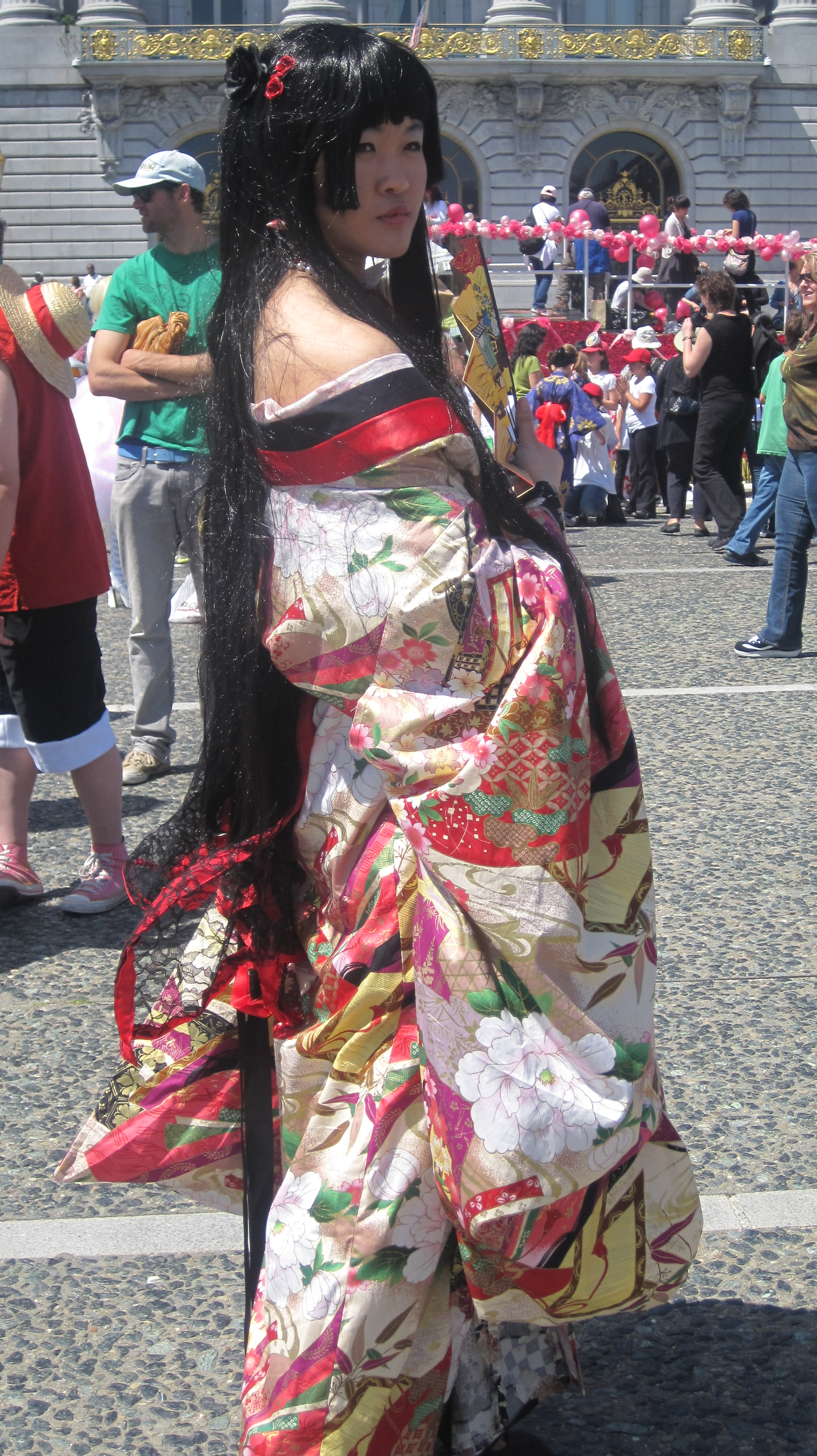 A cosplayer portraying Yuko Ichihara from xxxHolic at the 2010 Northern California Cherry Blossom Festival.